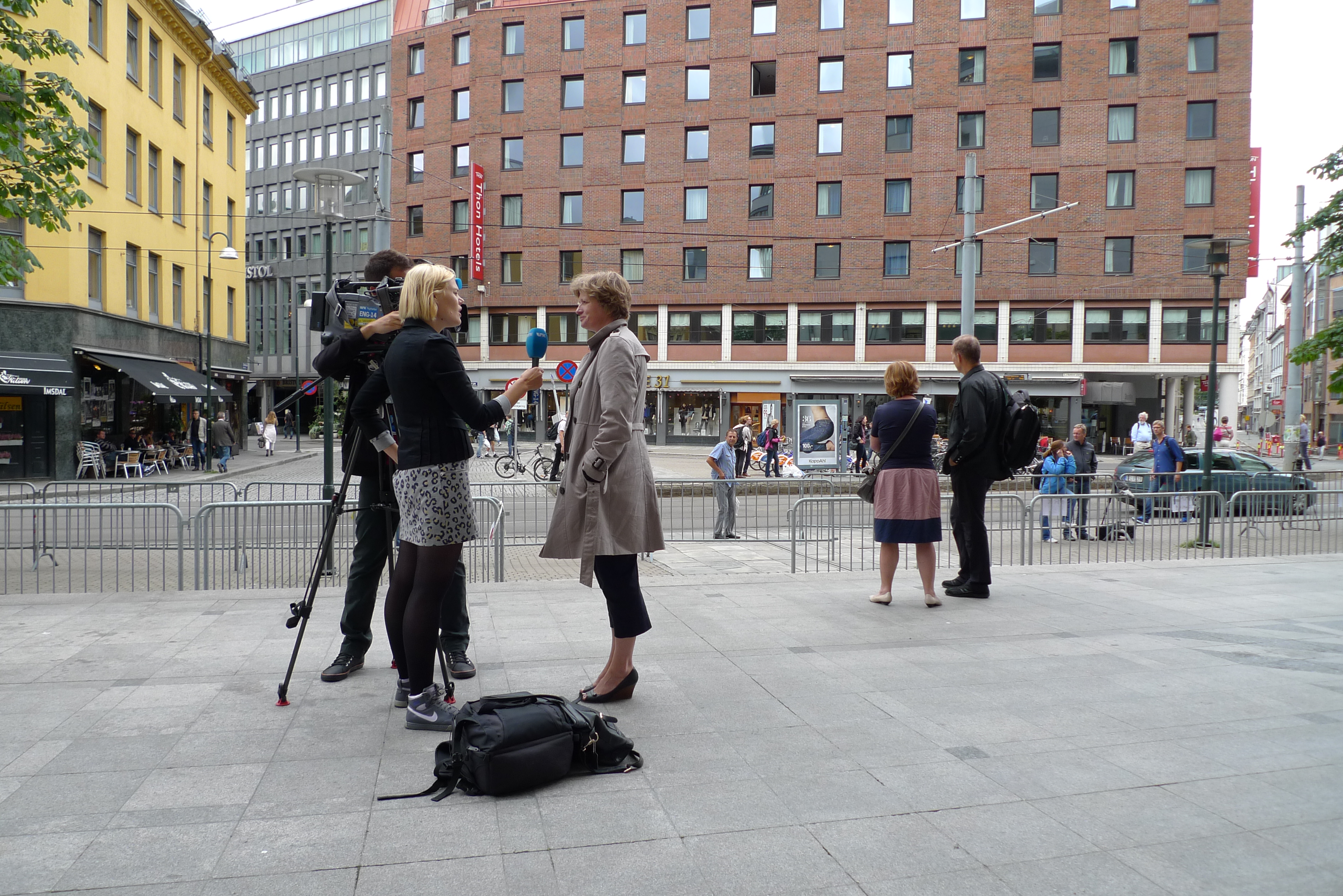 Norwegian lawyer Siv Hallgren gives an interview to NRK